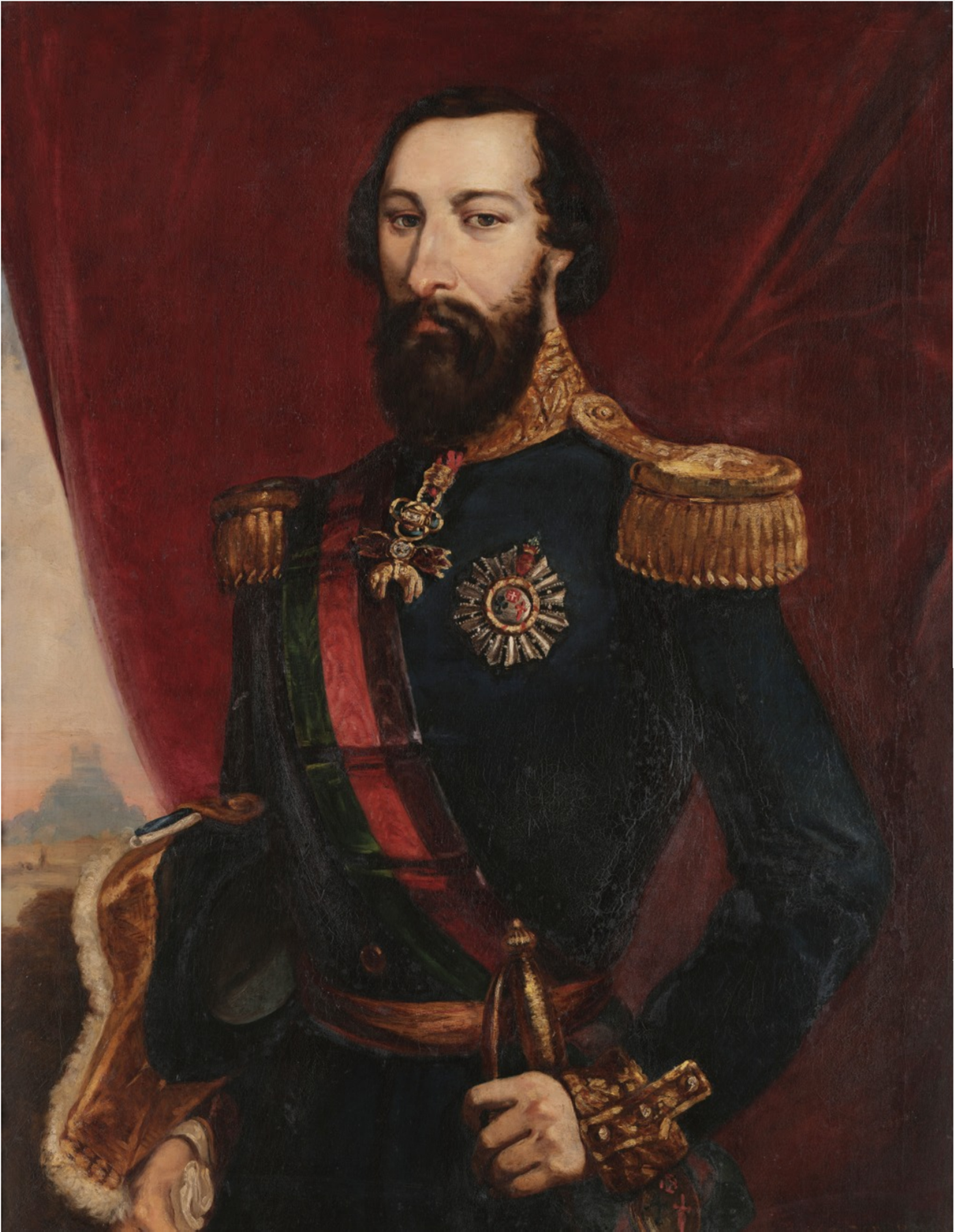 King Ferdinand II of Portugal